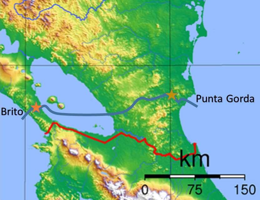 Nicaragua Canal project (January 2015) (blue line). Stars indicate Brito and Camilo locks.